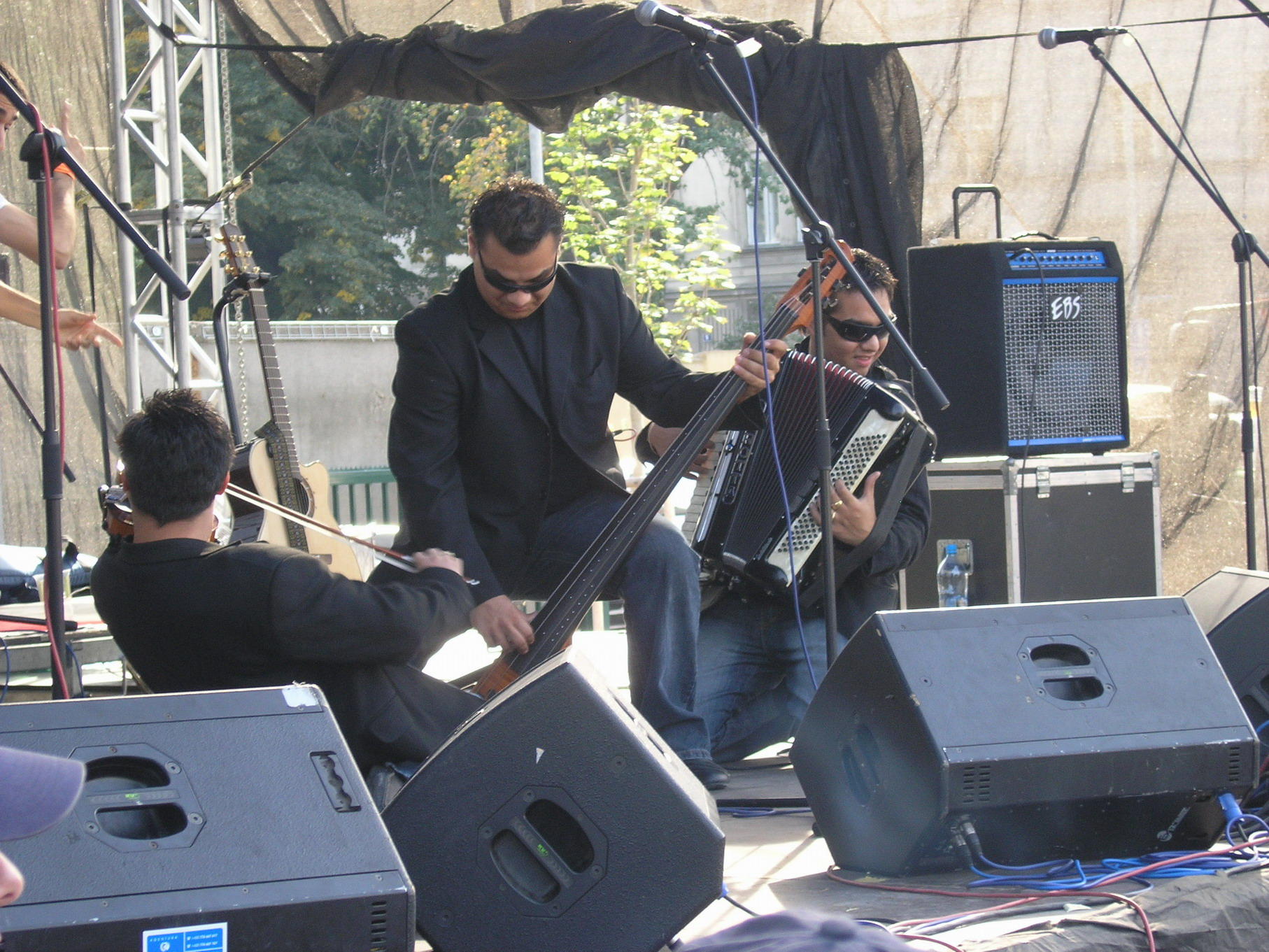 Gipsy.cz performing live at the Smí­choff Summer Festival 2007